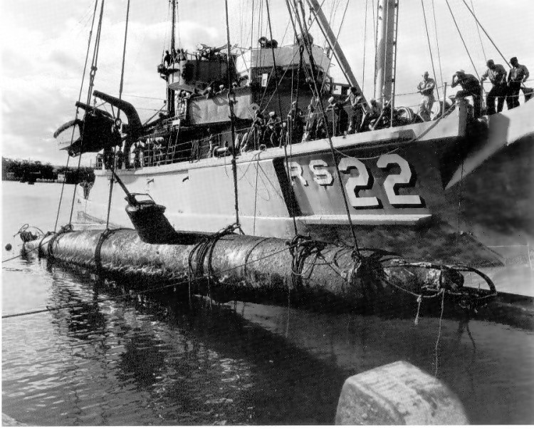 USS Current lifting midget sub from Hawaii in July 1960